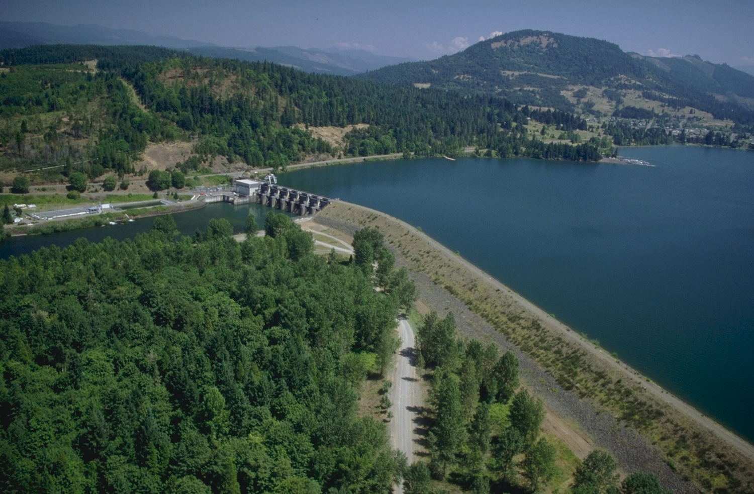 Aerial view of Dexter Lake and Dam on the Middle Fork Willamette River in Lane County, Oregon, with the city of Lowell visible in the upper right. The dam is located in Lane County approximately 16 miles (26 km) southeast of Eugene, Oregon. U.S. Army Corps of Engineers website on Dexter Lake